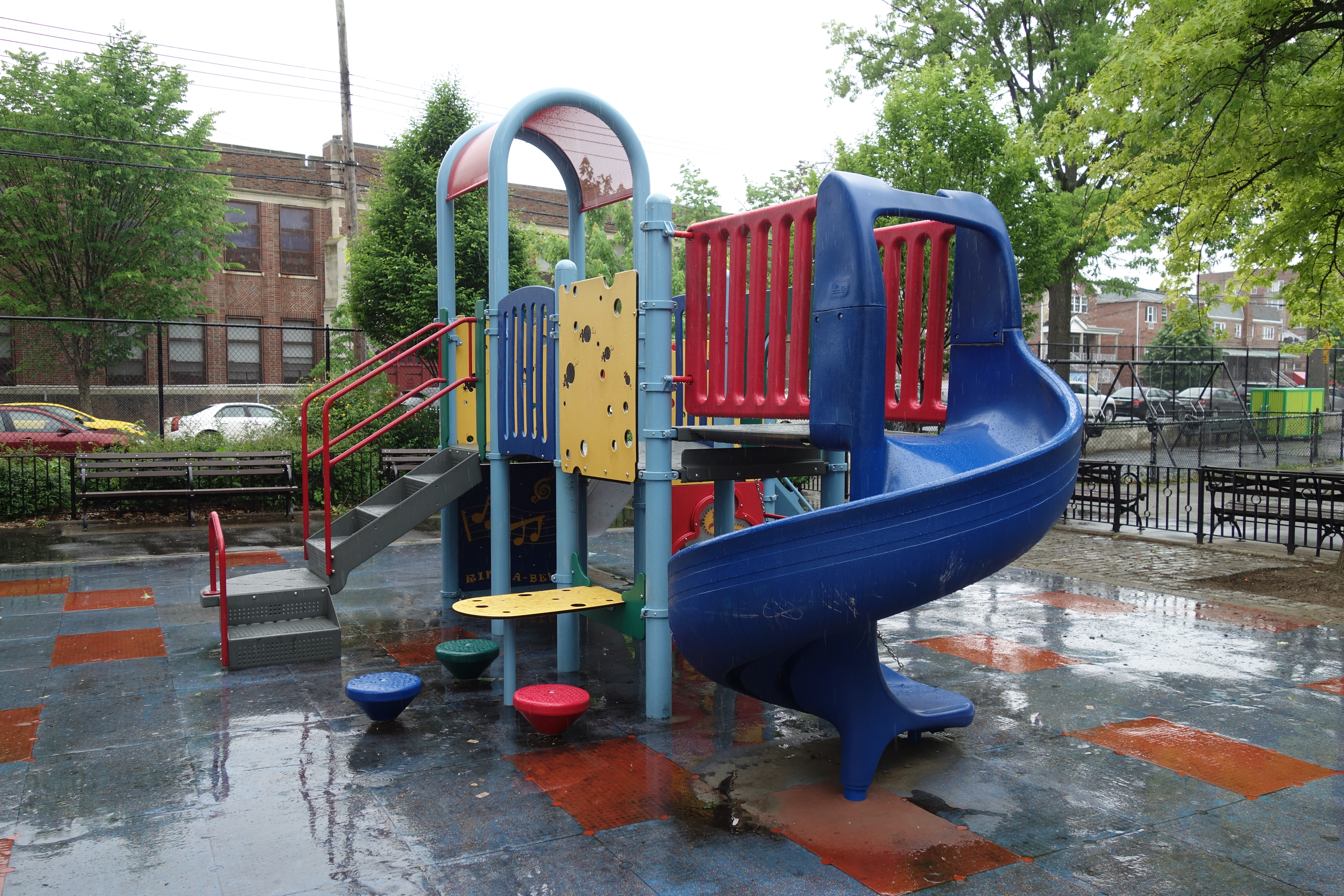 One of the two playground sections at the south end of Loreto Playground, on Van Nest Avenue between Tomlinson Avenue and Haight Avenue in Morris Park, Bronx. It is clear that the various parts of the park were constructed or renovated at different times, putting them in varying states of repair or disrepair. This playground section, for example, looks nearly brand new.